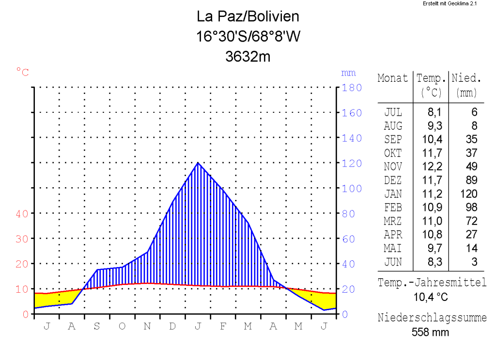 climate chart in the format by Walther and Lieth, metric, °Celsisus and millimeters, made with Geoklima 2.1